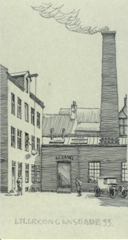 Coffee roaster in Lille Kongensgade in Copenahgen, Denmark